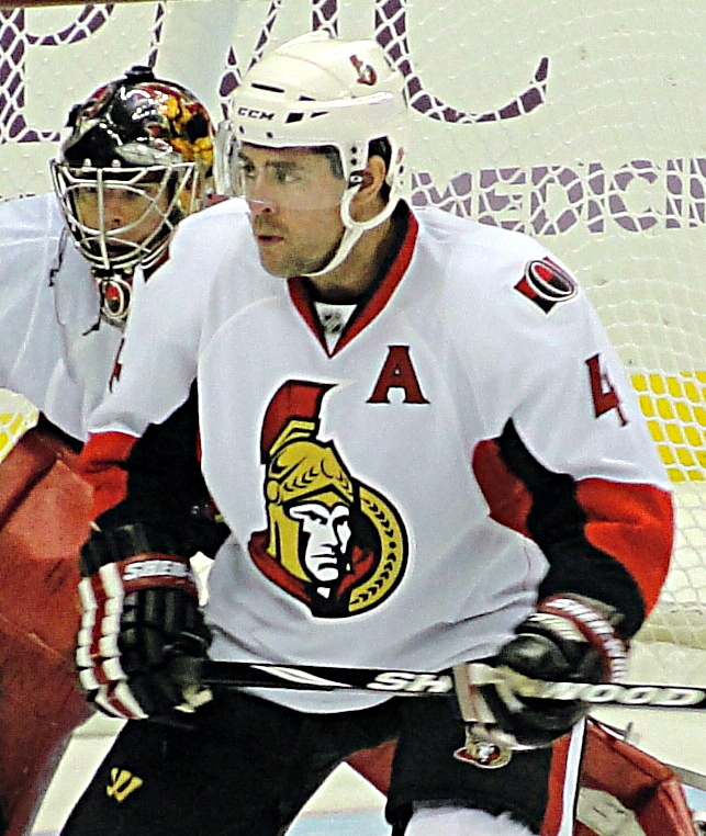 Ottawa Senators defenseman Chris Phillips in a November 26, 2010 game against the Pittsburgh Penguins at Consol Energy Center in Pittsburgh, PA.